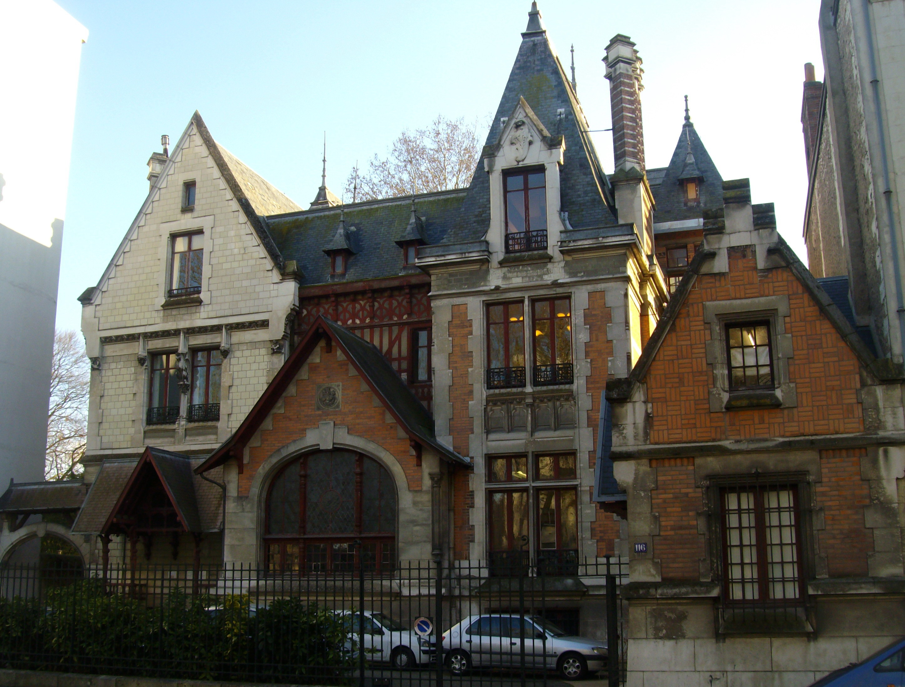 116 Boulevard Beranger à Tours